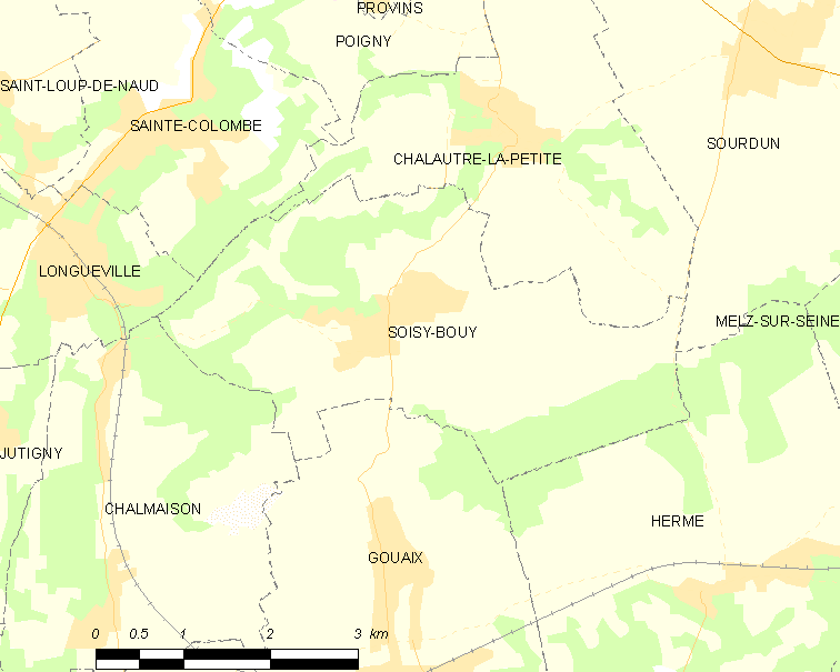 Map of French municipality Soisy-Bouy